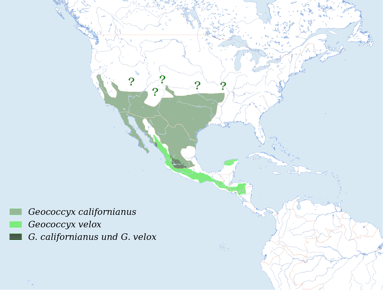 Geococcyx californianus and Geococcyx velox